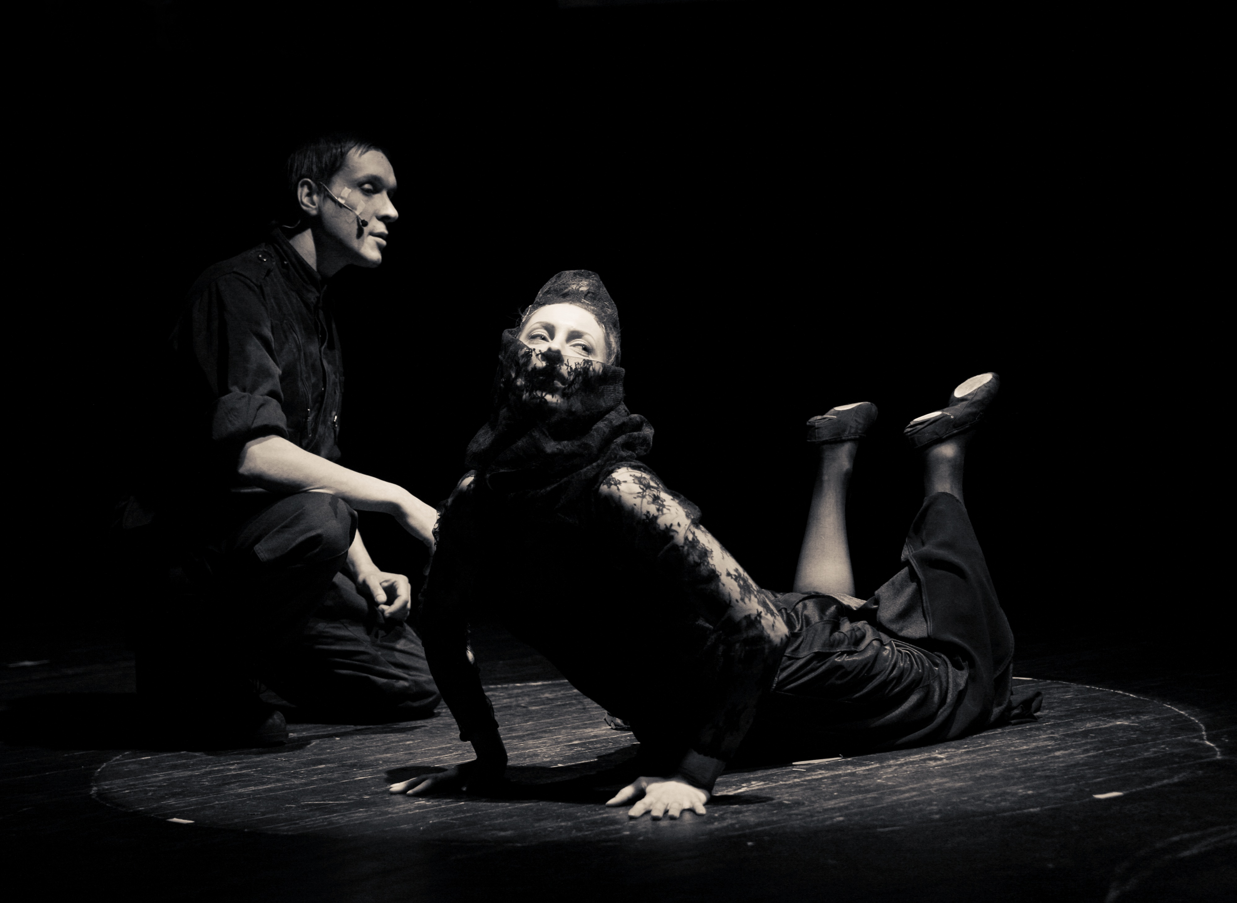 Von Krahl Theatre: The Magic Flute